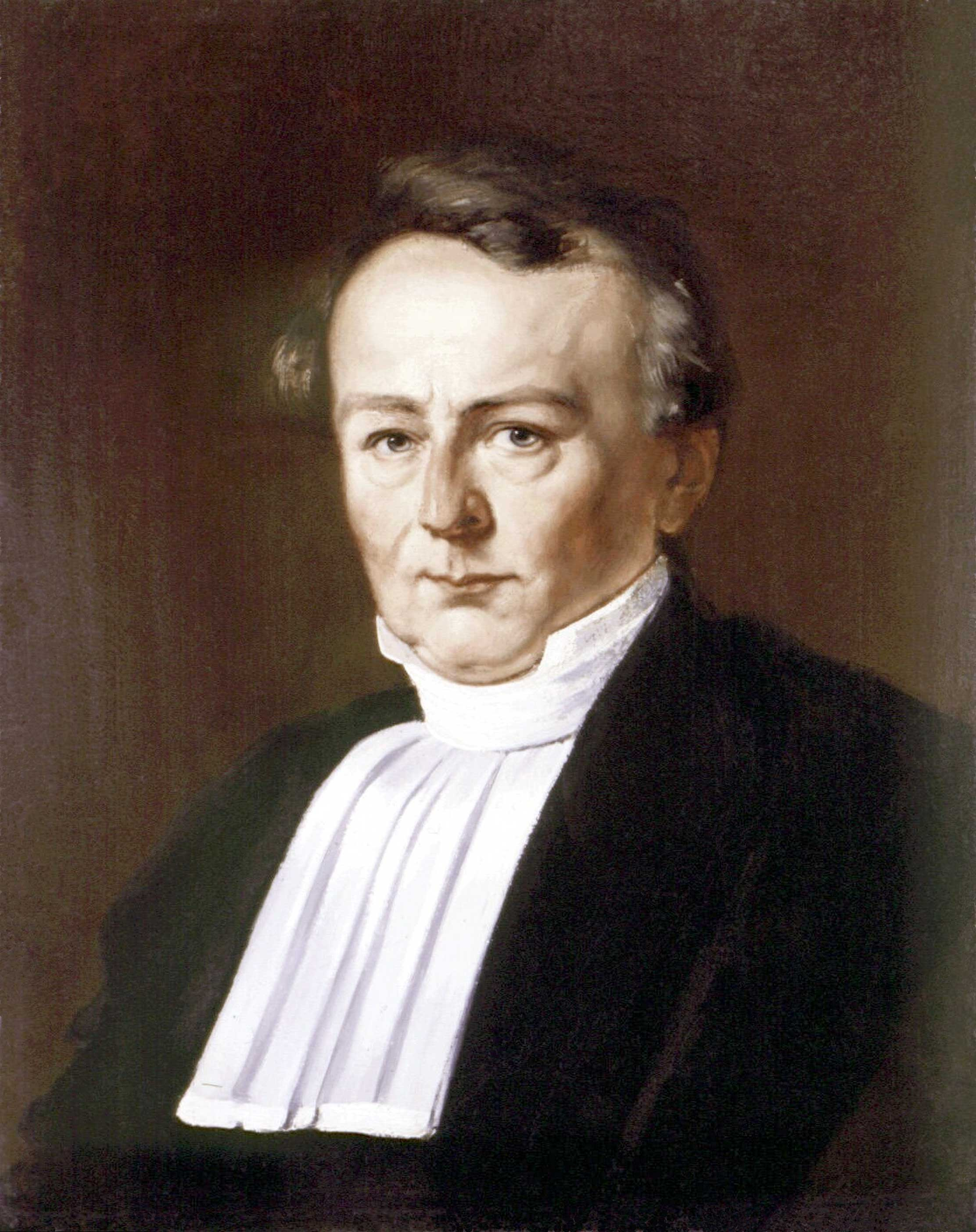 Lodewijk Gerard Visscher (1797-1859) Dutch literary scholar and historian